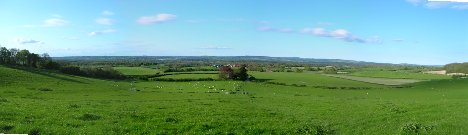 Panorama of the western Weald looking north from Didling Hill, West Sussex, England.